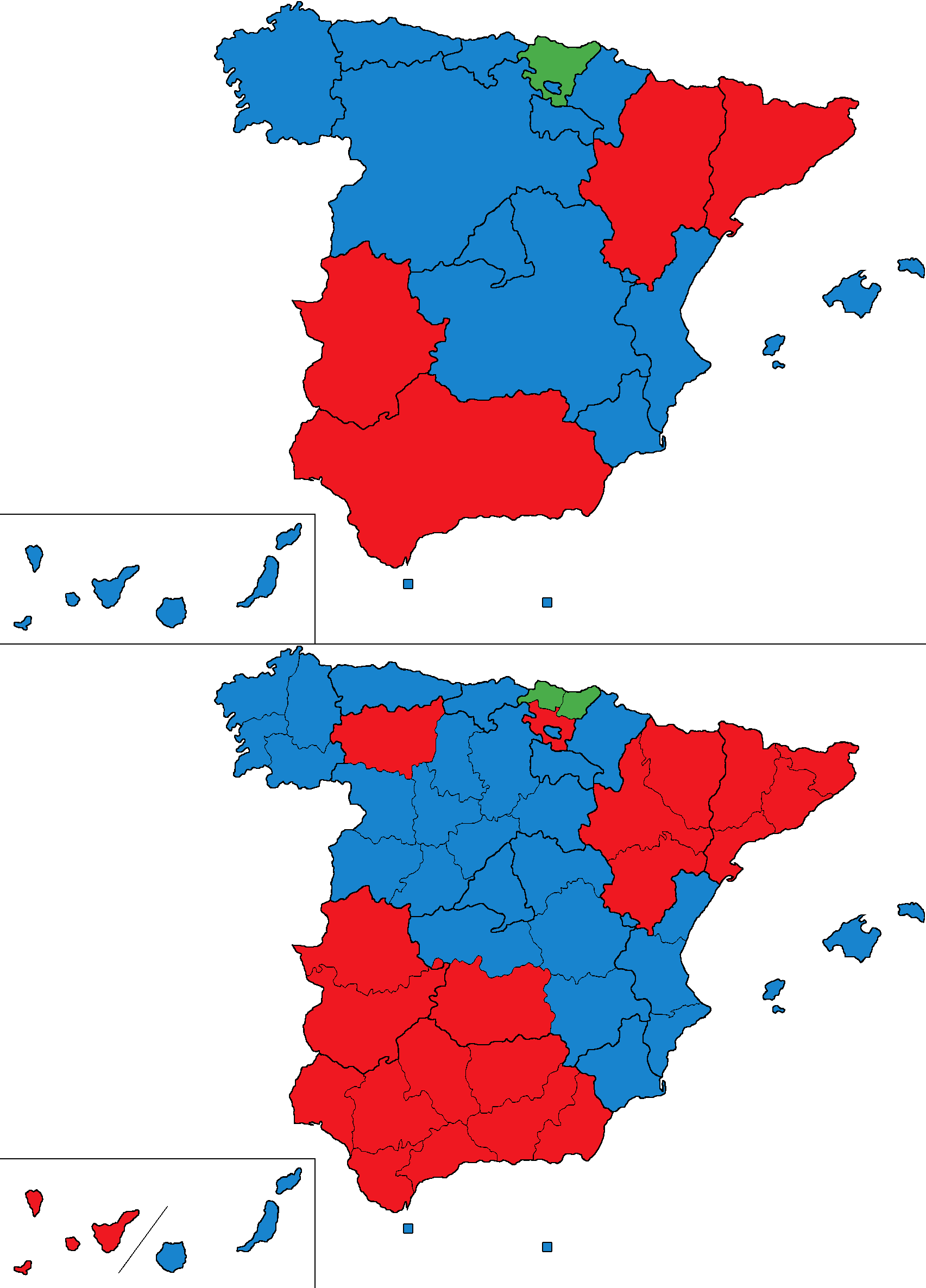 Most voted party in the 2004 Spanish Congress of Deputies election by autonomous communities and provinces.